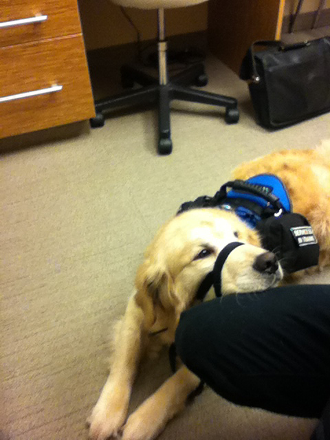 While handler is working, the service dog hangs out at their feet.